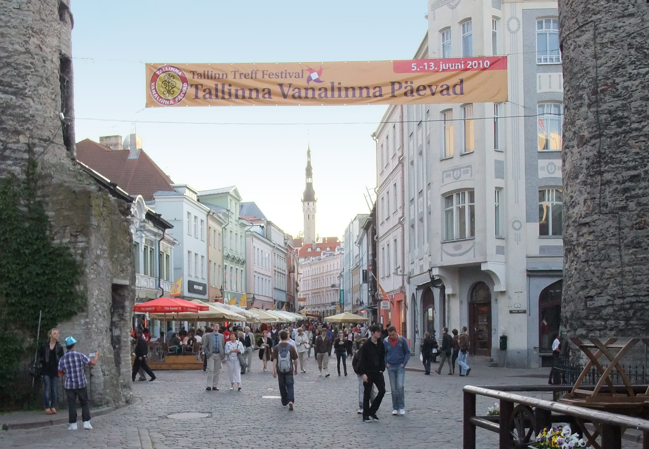 View from Viru Värav Gate to Viru Street in Tallinn, Estonia